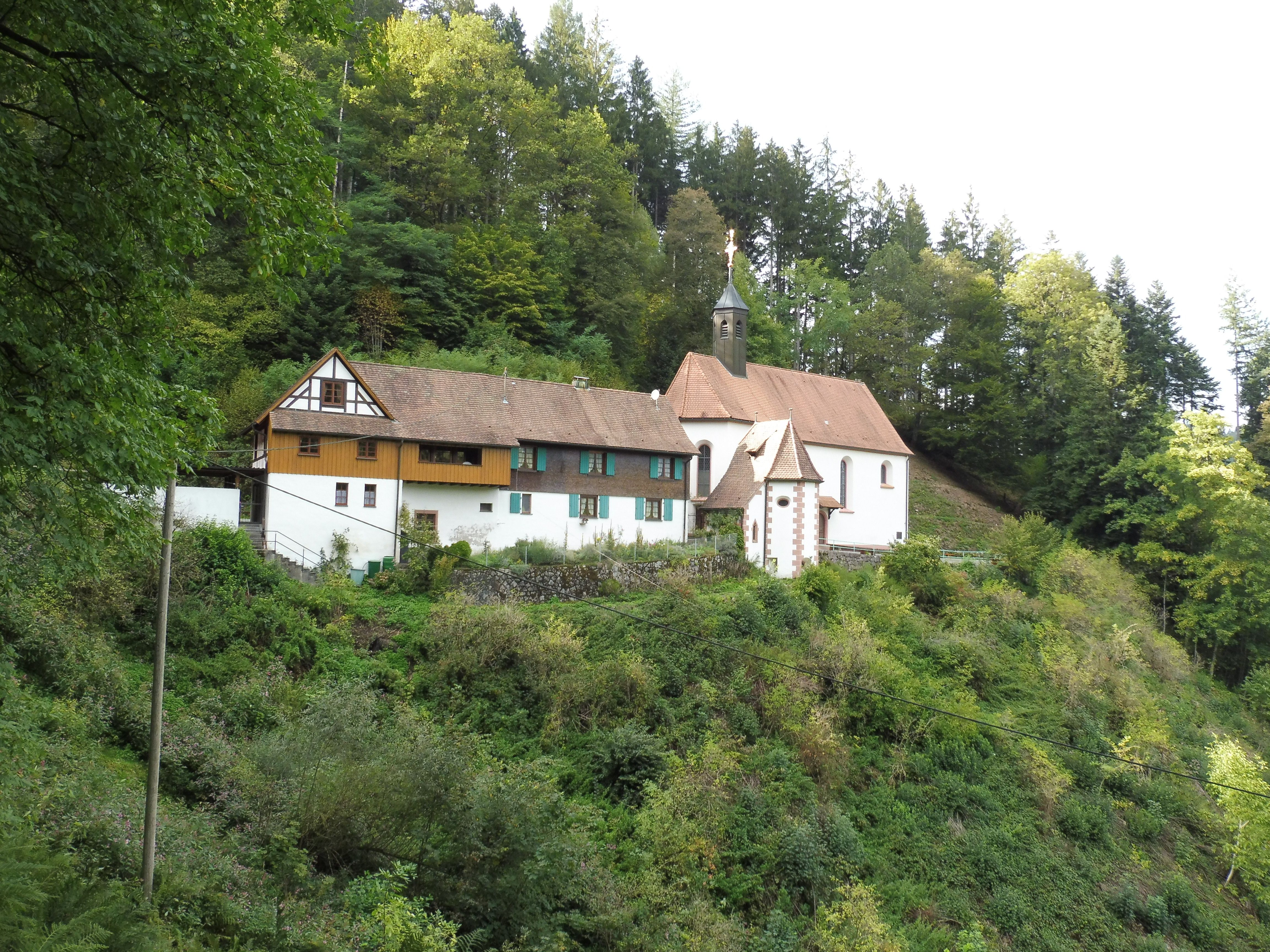 Jakobuskapelle Wolfach, Baden-Württemberg